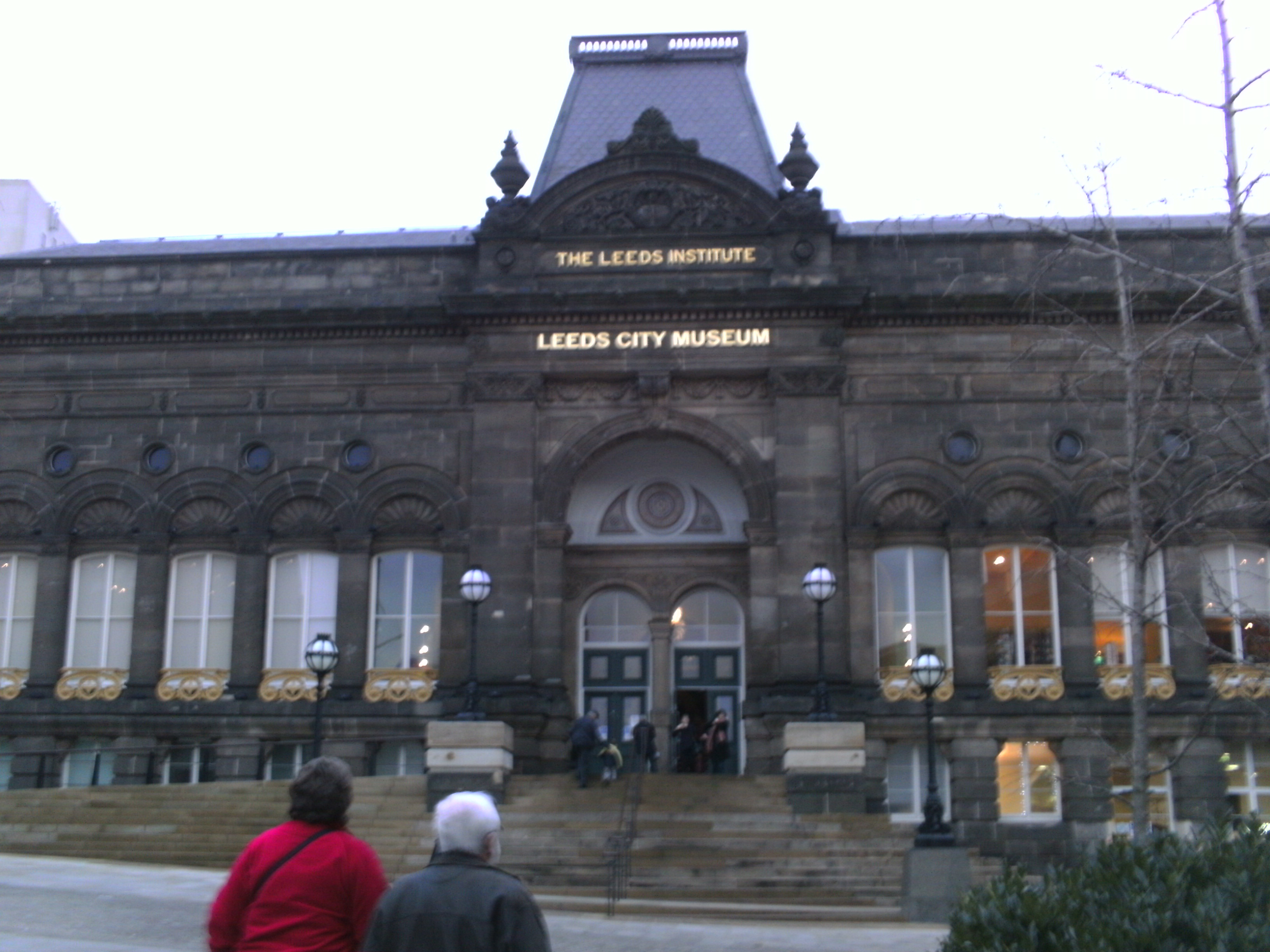 The Leeds City Museum on Millennium Square, Leeds, West Yorkshire, UK. The museum was formerly the Civic Theatre.